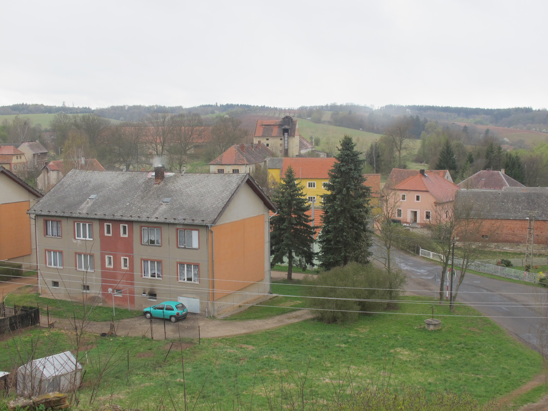 Village square in Nečemice